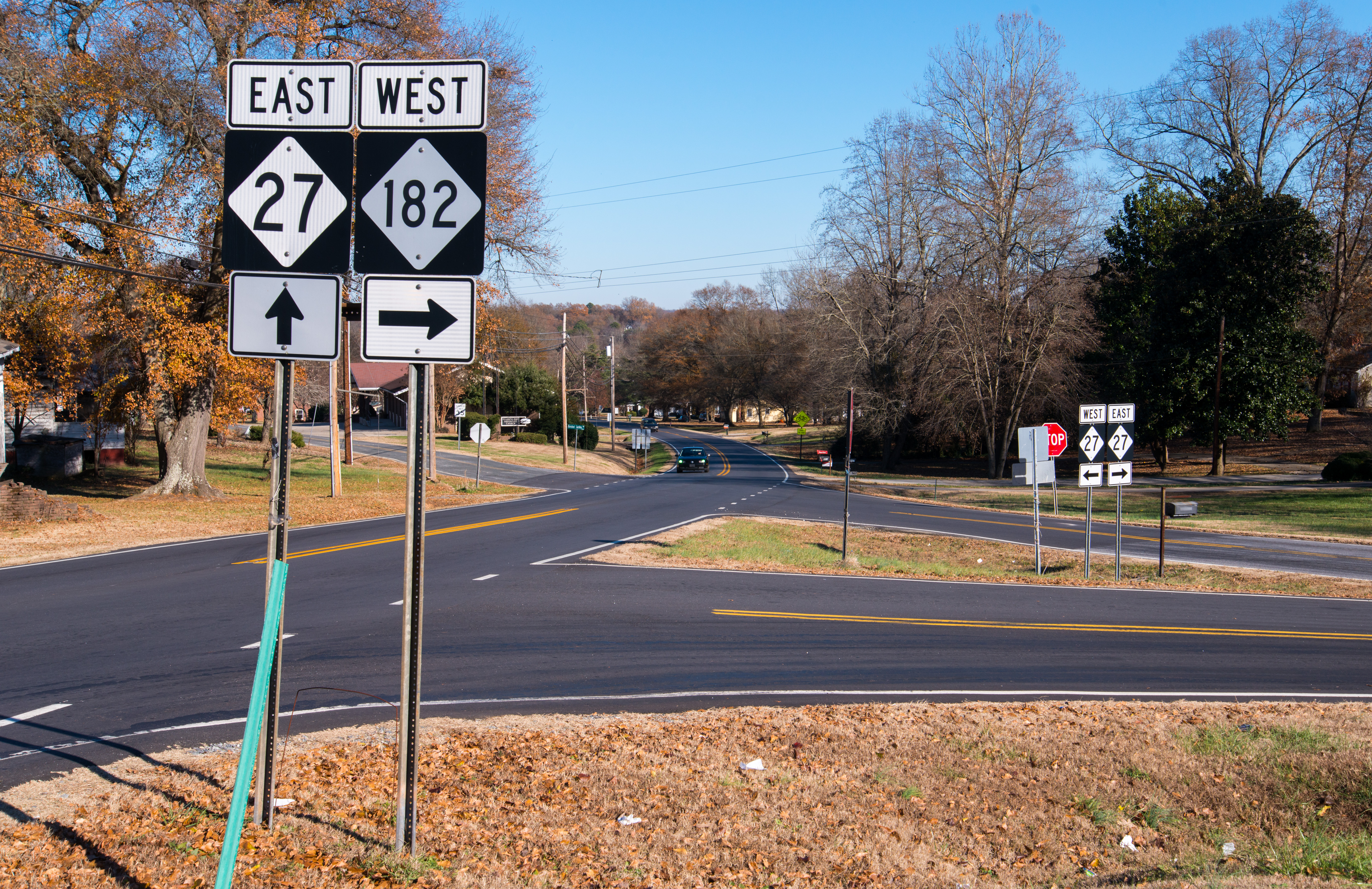 Intersection of NC 27 and NC 182, west of Lincolnton, North Carolina.